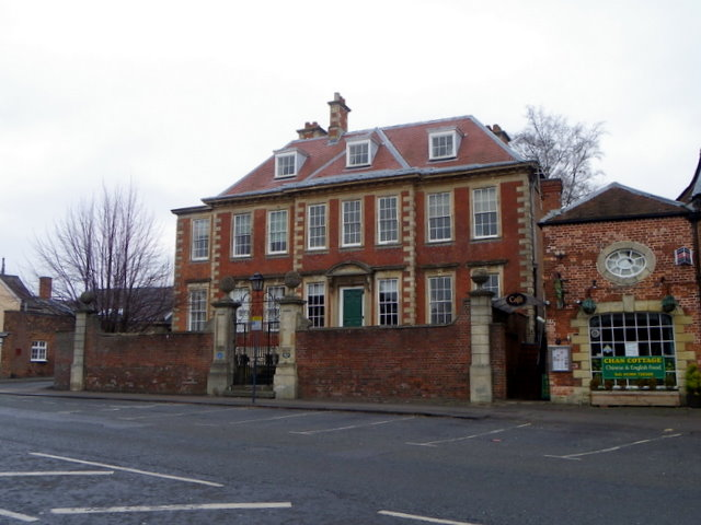 The brick built house dates from 1720 and is Grade I listed, as is also the forecourt wall. The house was built for Francis Merewether, High Sheriff of Wiltshire in the early 18th century.